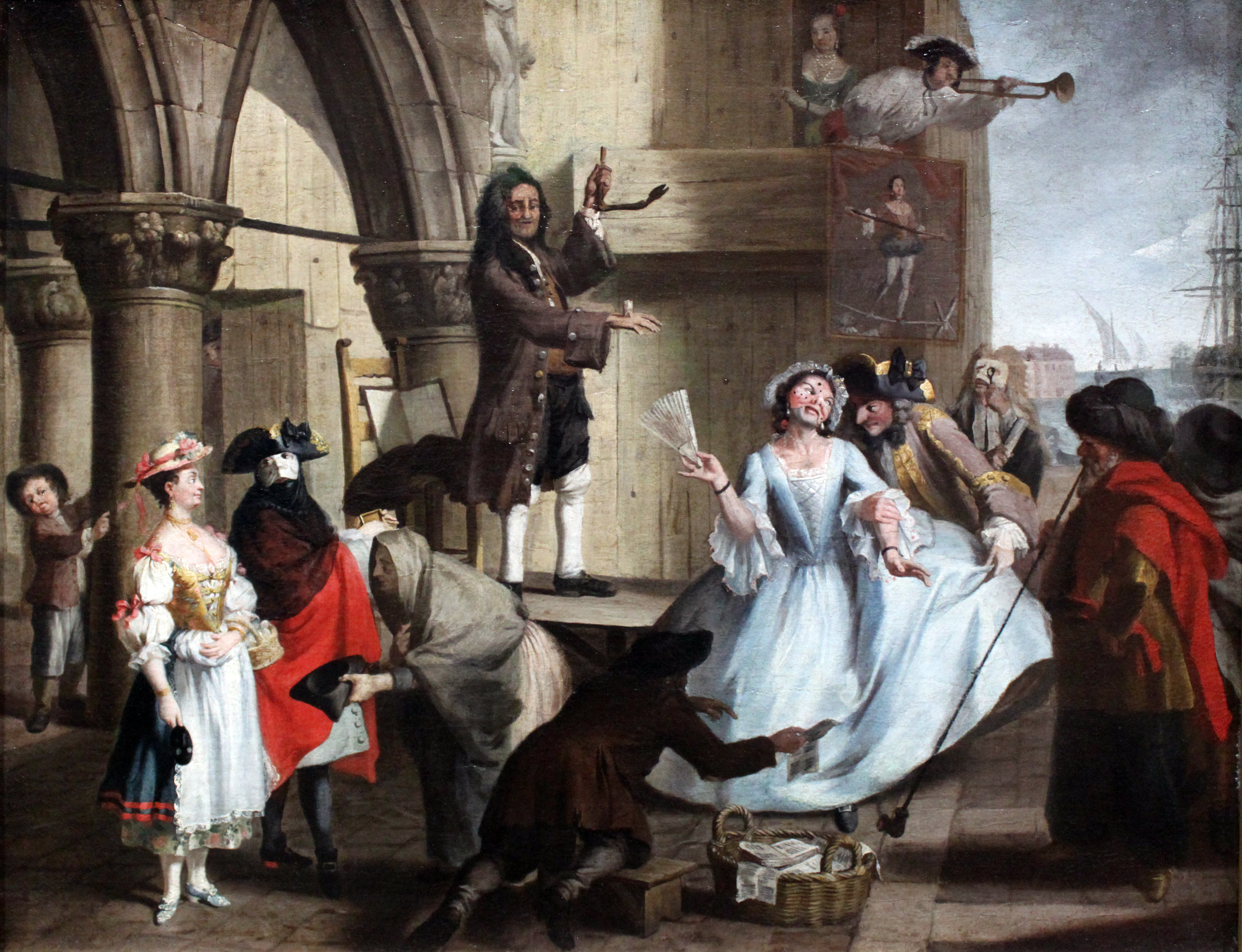 Jugglers before the Doge's Palace